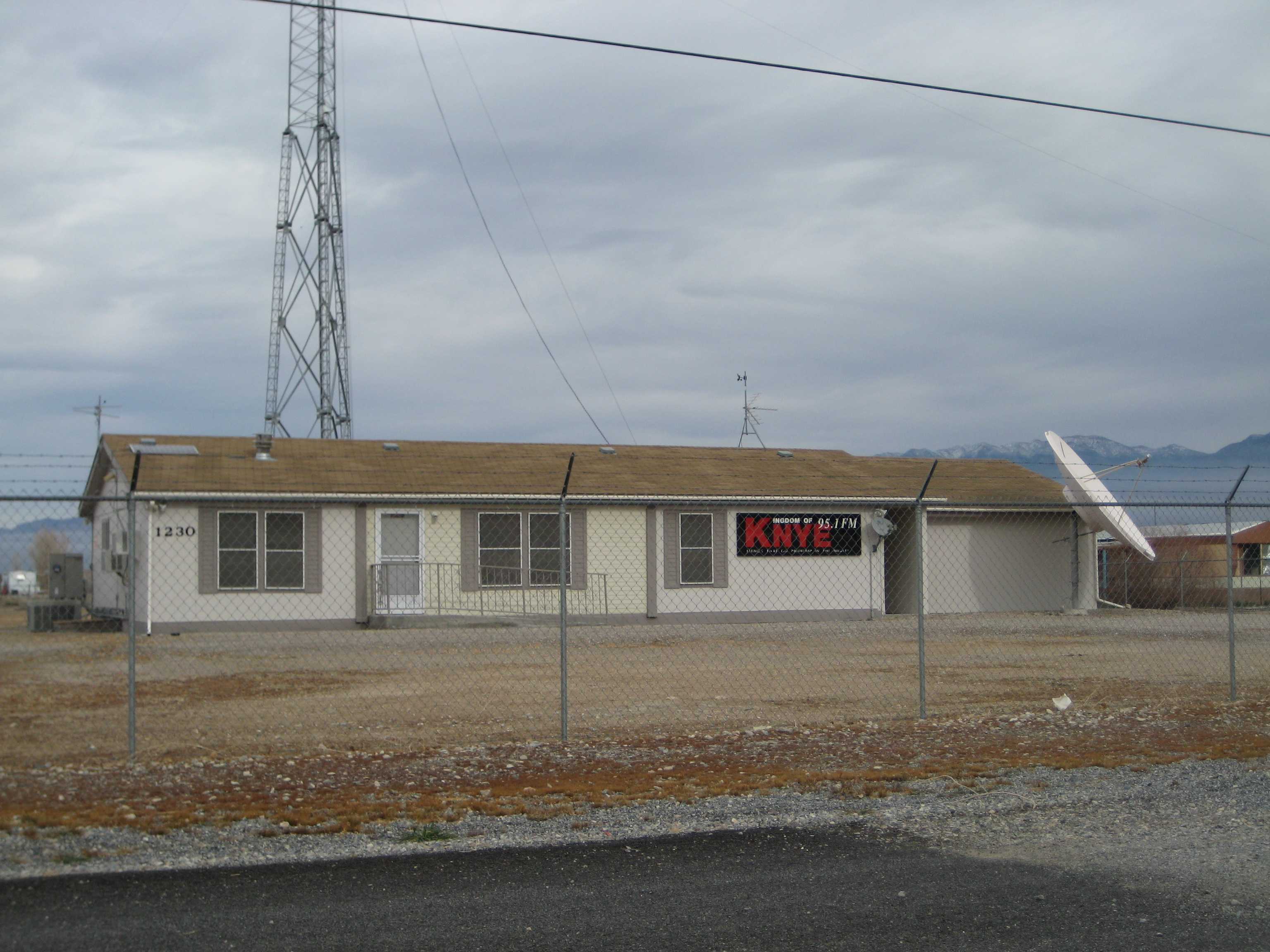 Photograph of offices of radio station KNYE in Pahrump, Nevada, US.